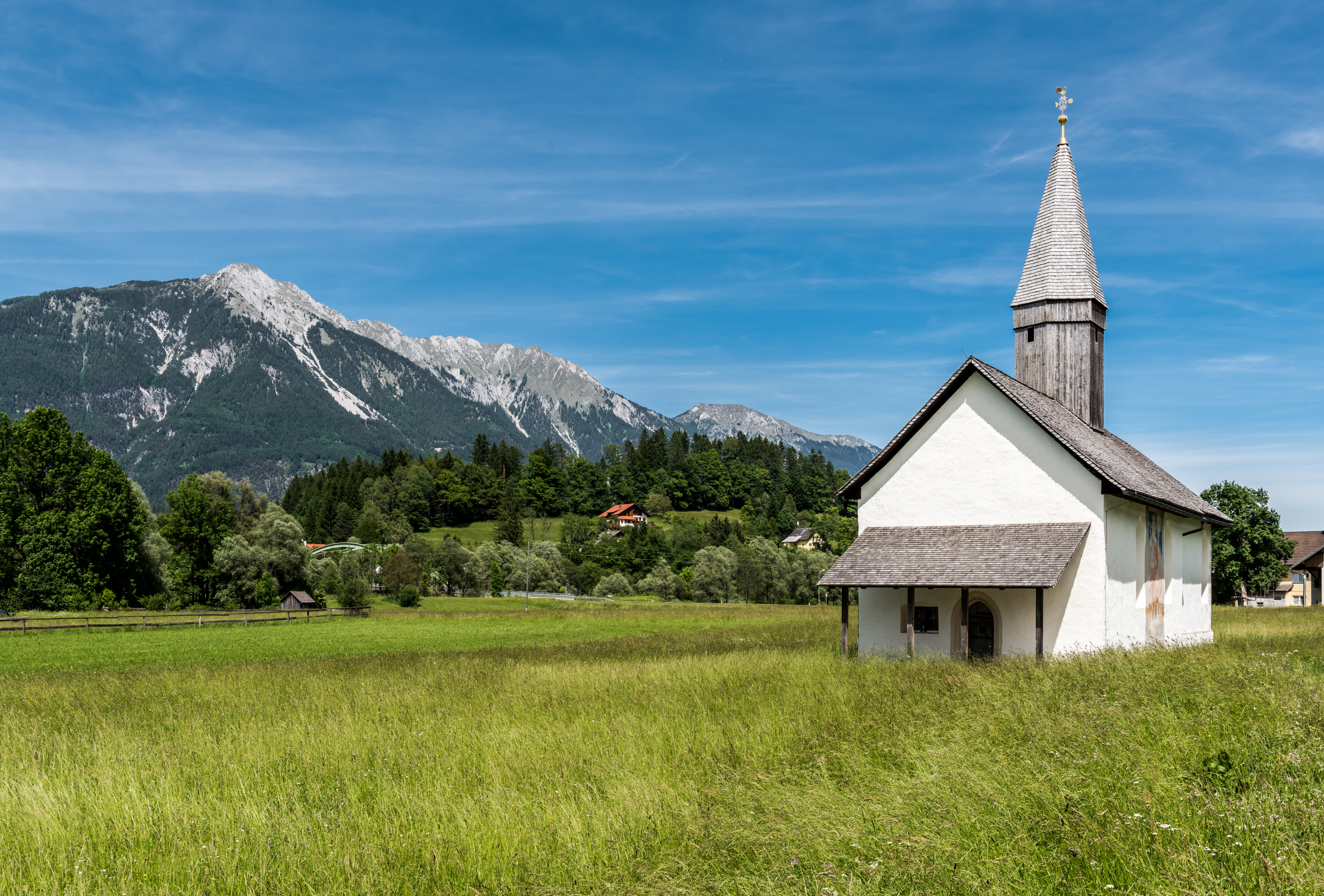 West-southwestern view of the Subsidiary Church of Saint Martin in Moederndorf, municipality Hermagor-Pressegger See, district Hermagor, Carinthia, Austria, EU